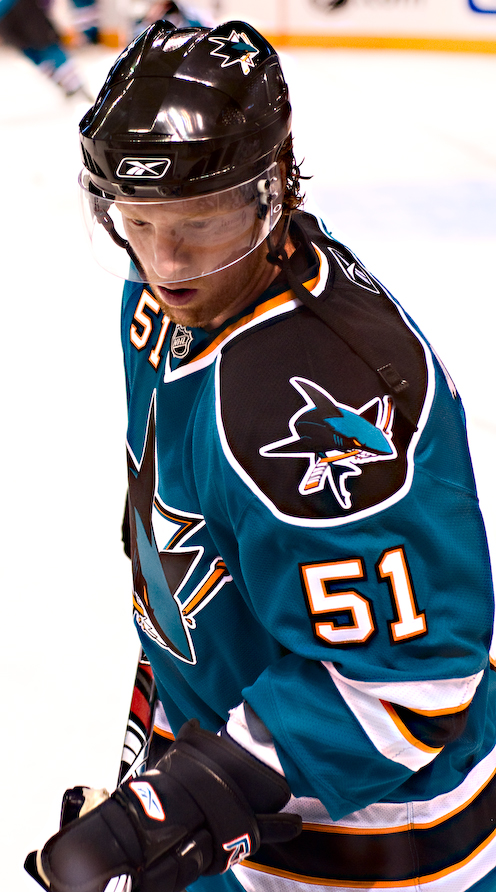 Campbell with the Sharks in 2008. The Blackhawks signed defenseman Brian Campbell, seen here with the San Jose Sharks, to the largest contract in team history.